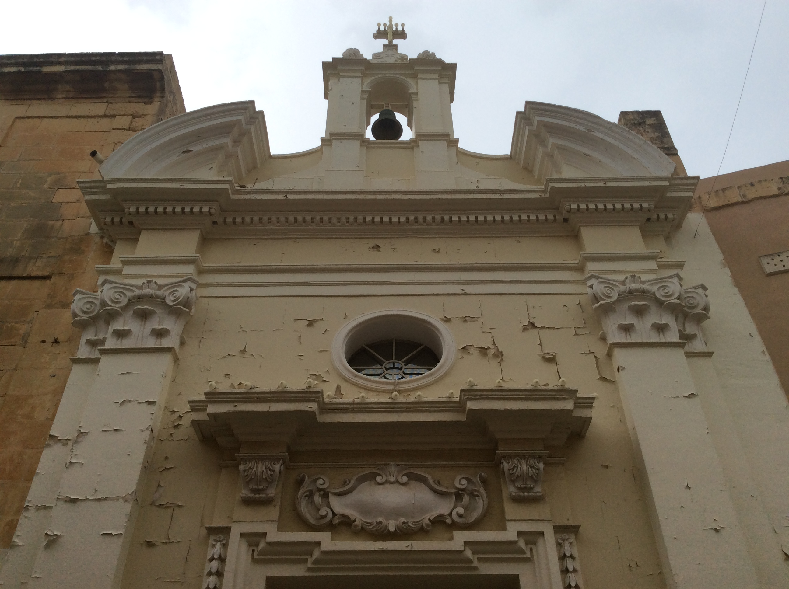 Chapel of the Holy Spirit This media is about Maltese cultural property with inventory number 01953.